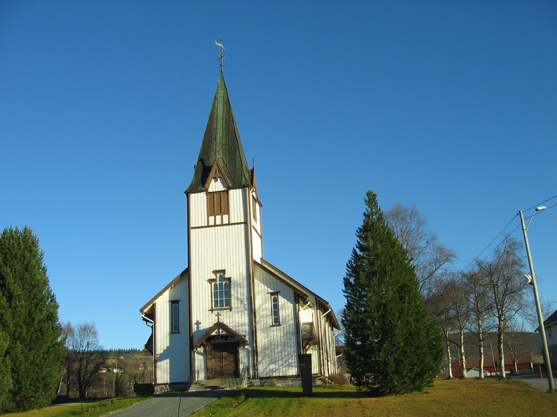 Ålen Church, Sør-Trøndelag, Norway Norwegian: Ålen kyrkje, Sør-Trøndelag, Noreg